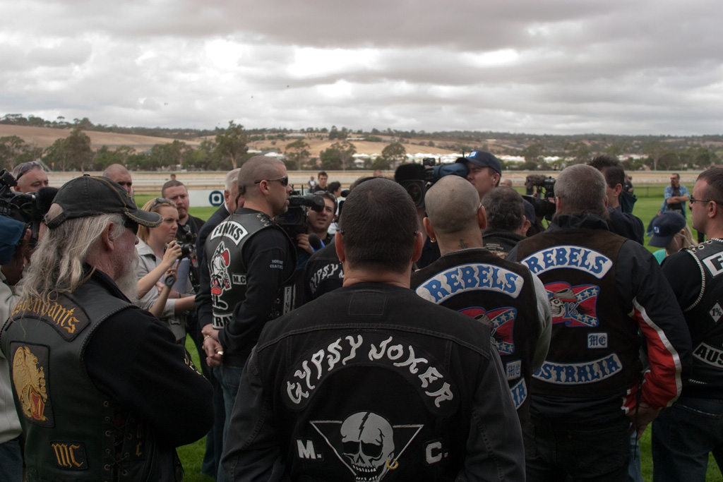 Gypsy Joker Protest Run, Gawler, South Australia. [1]